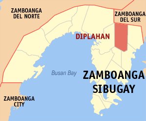 Map of the Zamboanga Sibugay showing the location of Diplahan